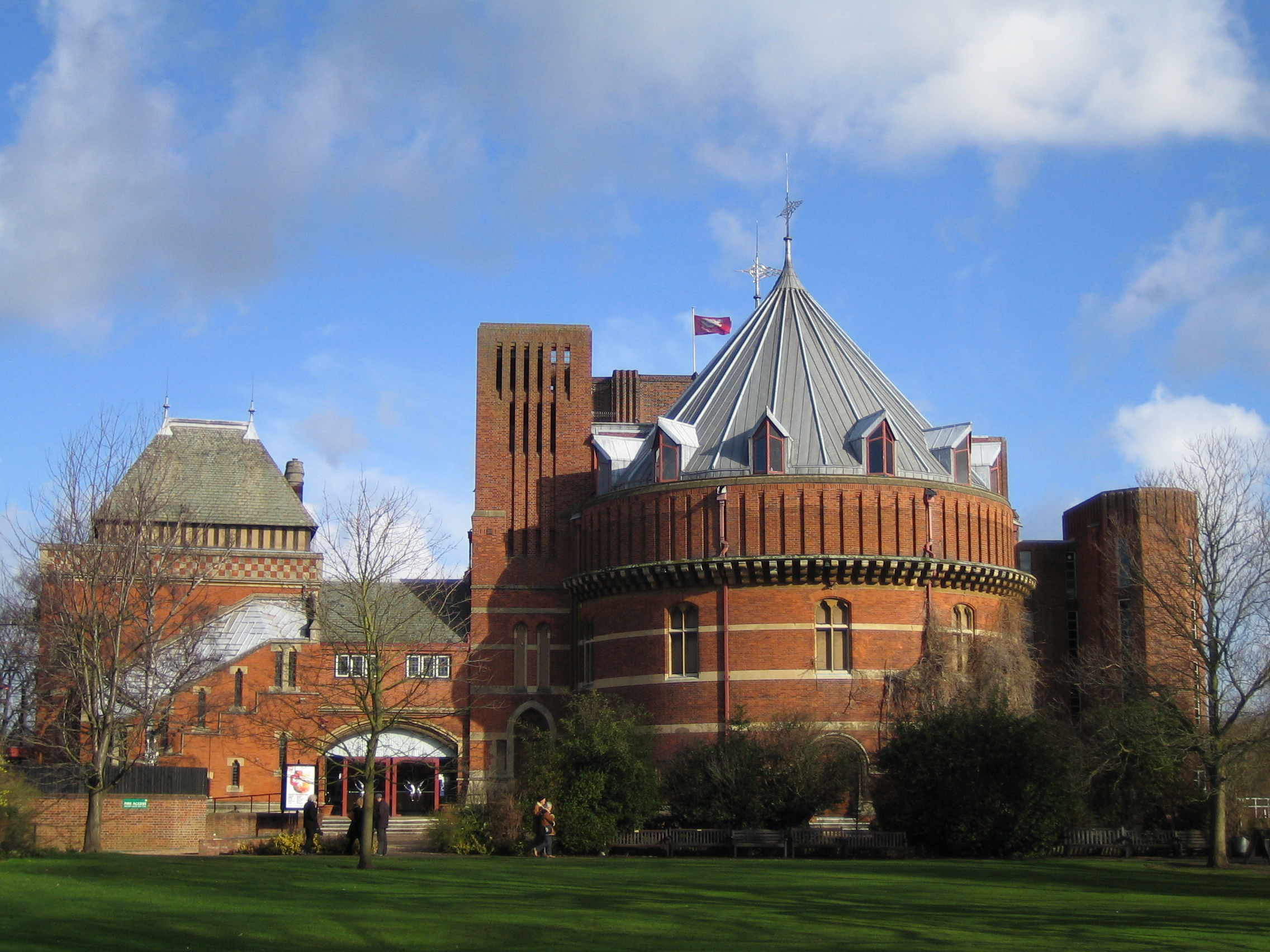 Royal Shakespeare Company theatre, Stratford-upon-Avon, Warwickshire, England.